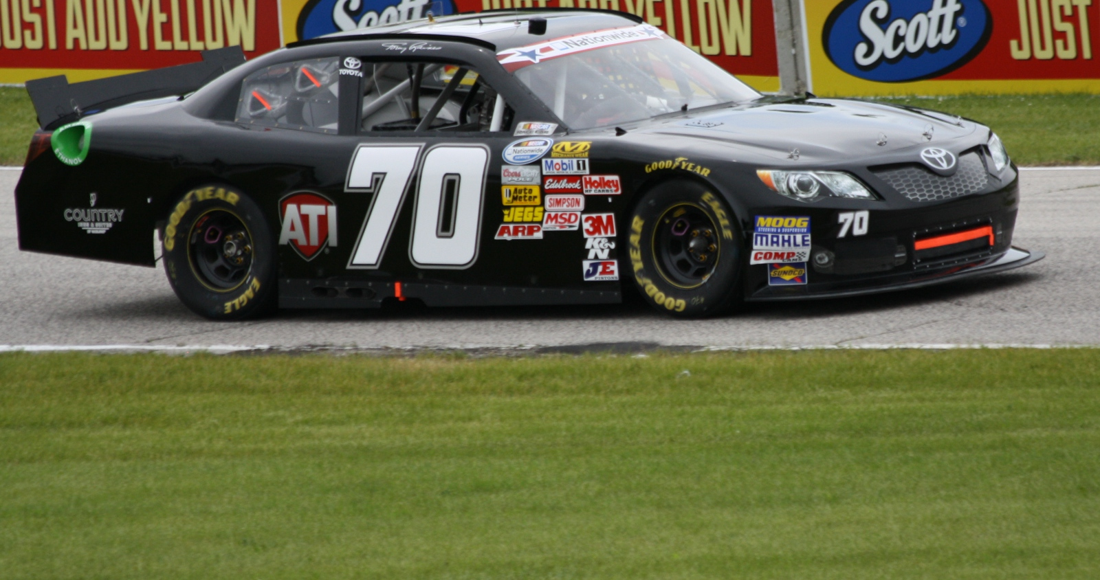 The NASCAR Nationwide car of Tony Raines during the w:2013 Johnsonville Sausage 200 at Road America.